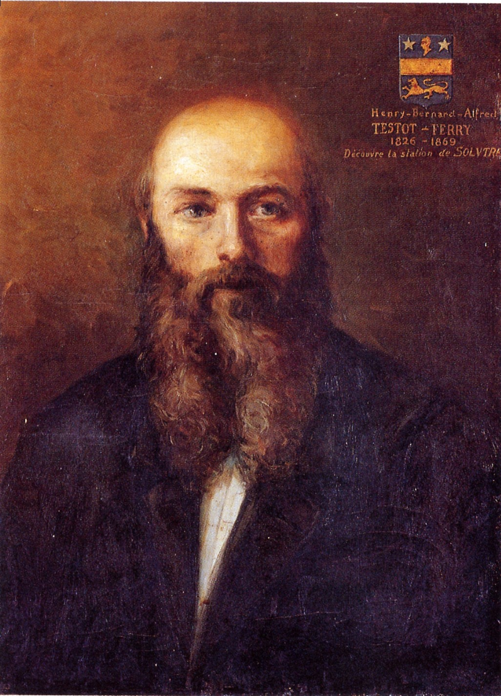 Portrait d'Henry Testot-Ferry